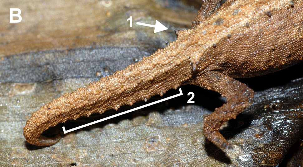 Lateral and pelvic spines in Brookesia desperata